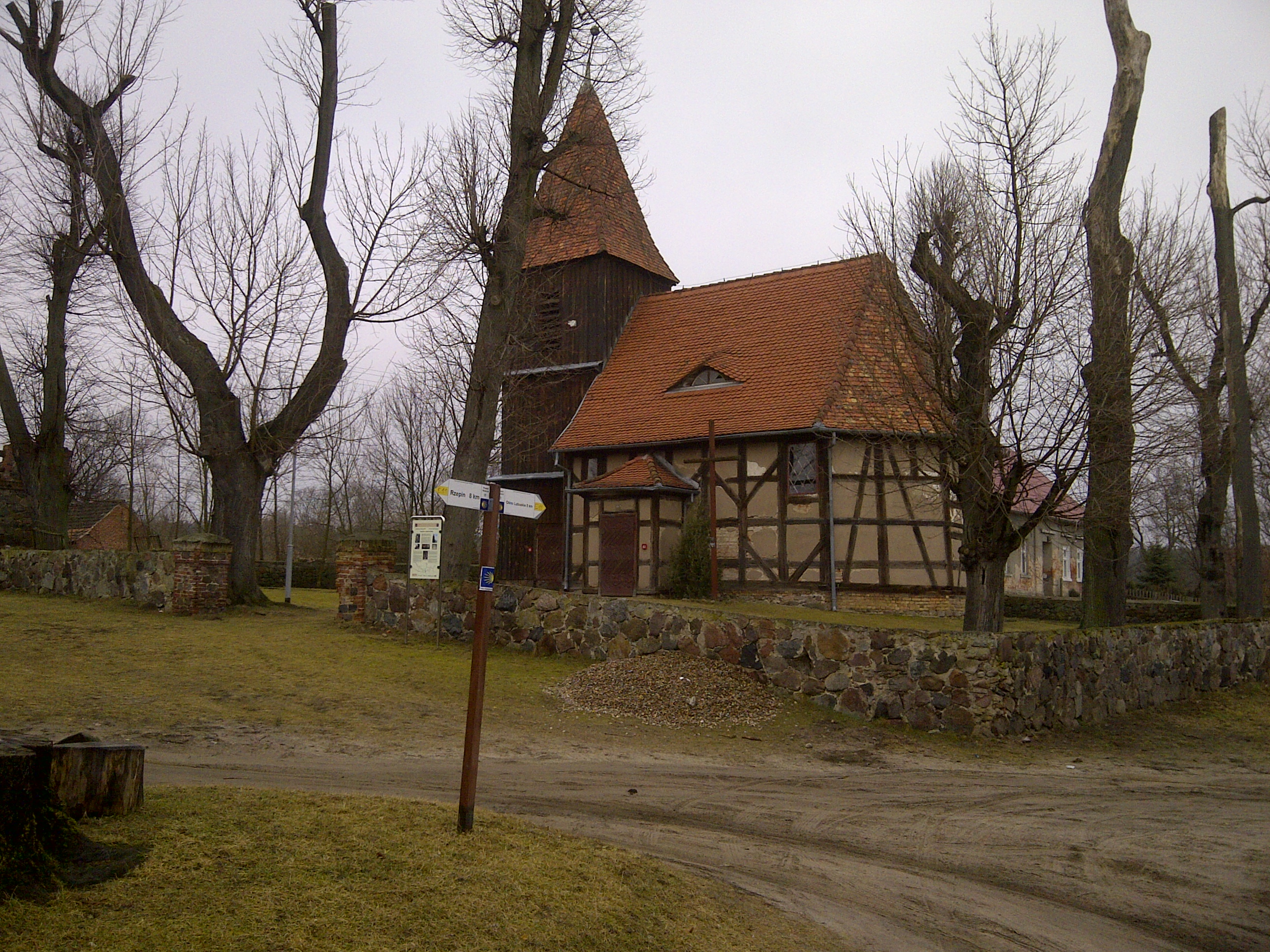 The church of Lubiechnia Mała